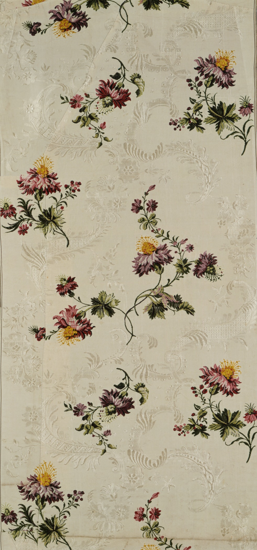 England, Spitalfield, circa 1740 Textiles; panels Silk brocade Costume Council Fund (M.81.69.2) Costume and Textiles